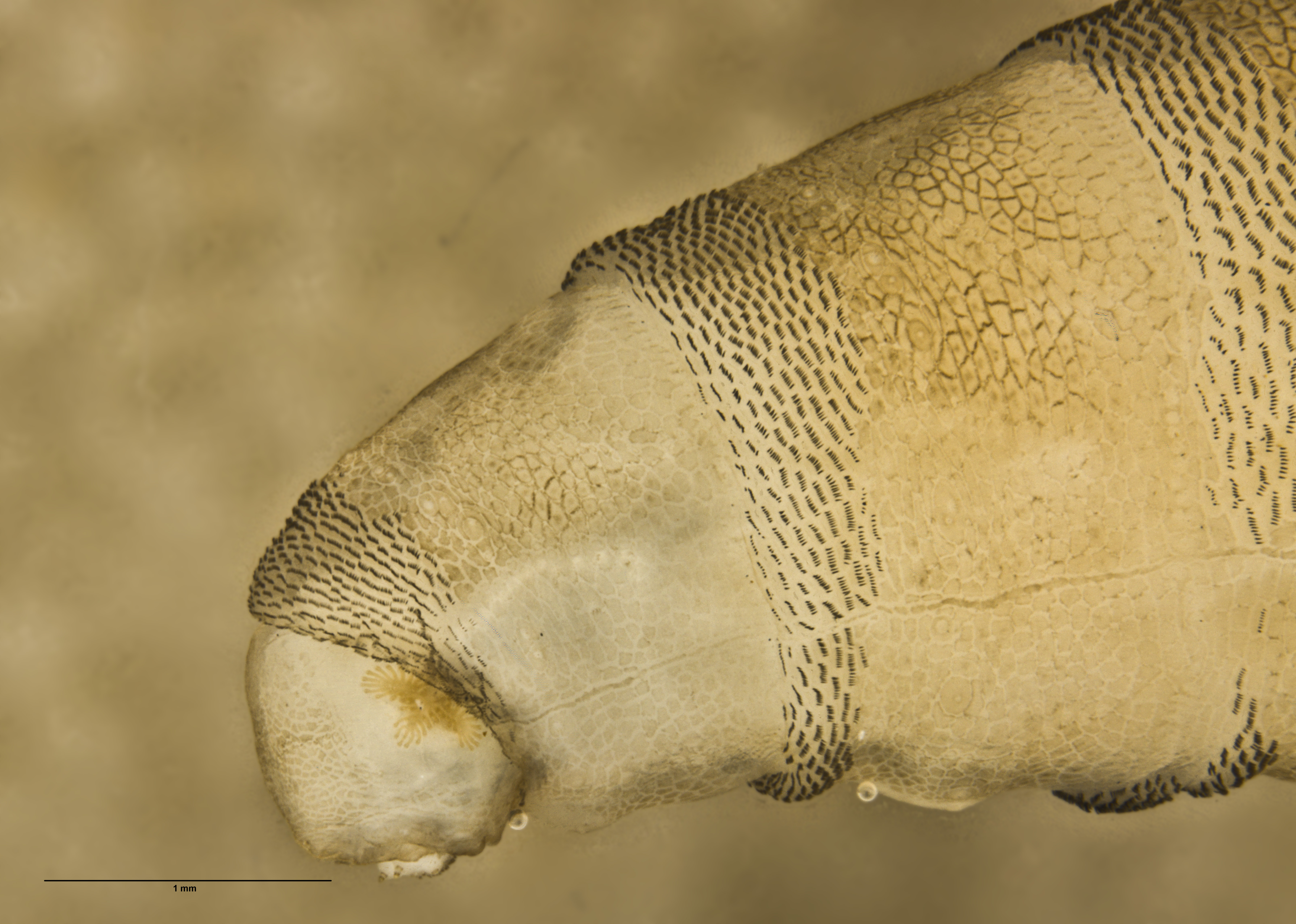 End of a larva specimen of Baeopterus philpotti AMNZ87815 held at the Auckland War Memorial Museum.